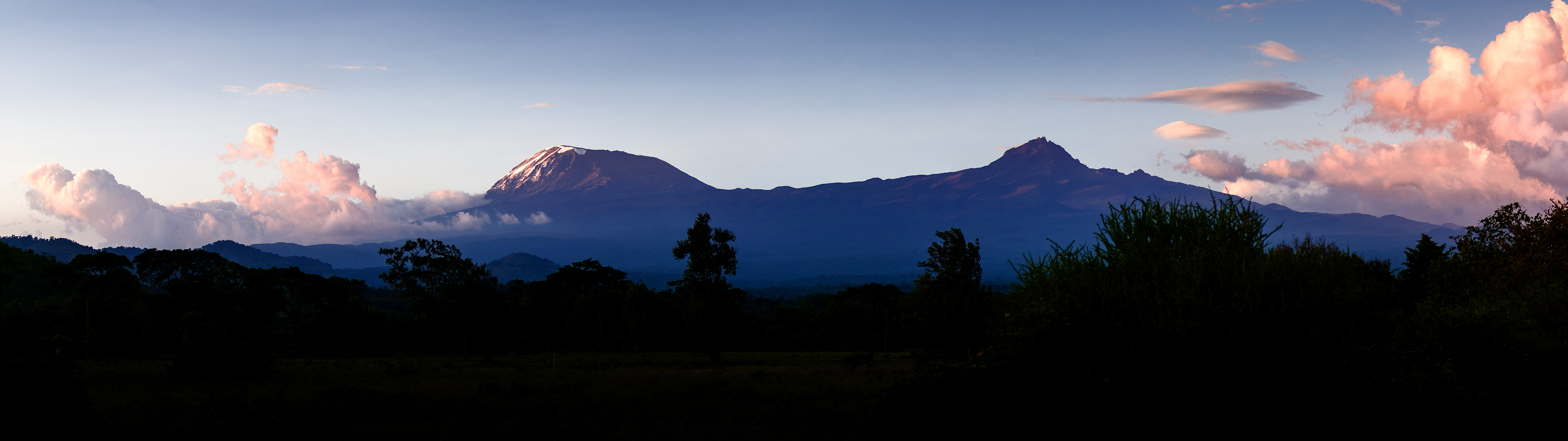 The Kibo and Mawenzi Cones of Mt. Kilimanjaro are shown in this photo. Even though Kibo is much taller, Mawenzi is closer to the photographer. This photo was taken outside of the town of Himo, in northern Tanzania.